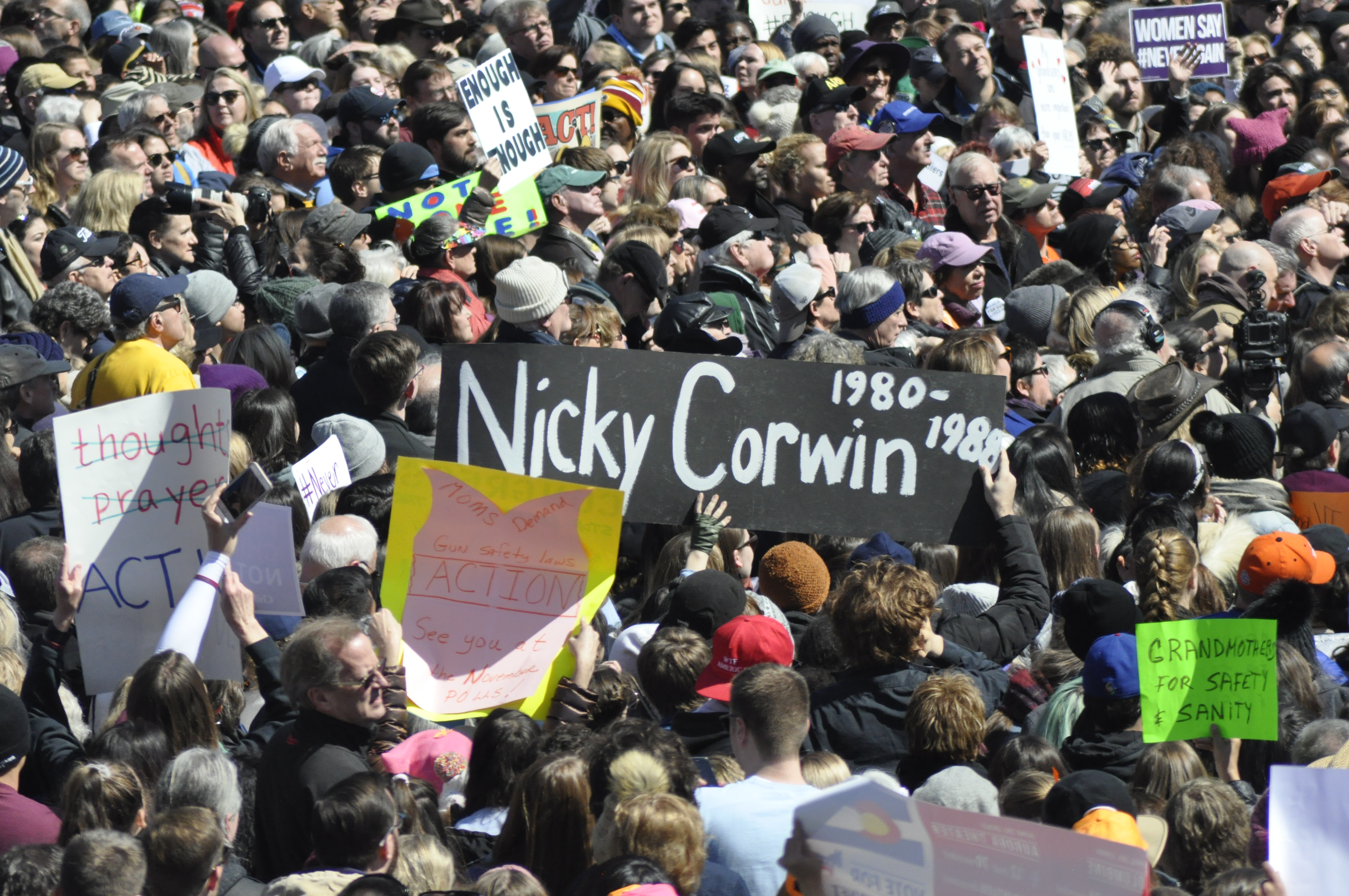 Banners and signs at March for Our Lives on 24 March 2018 in Washington, D.C.